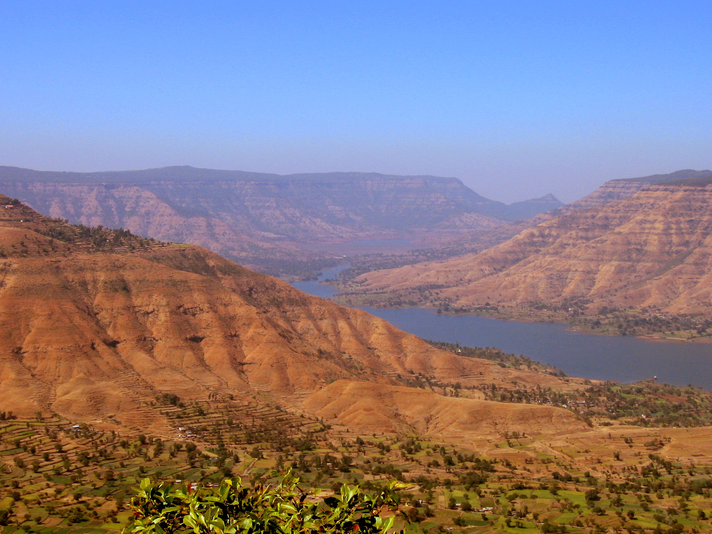 View from Panchgani, Maharashtra.